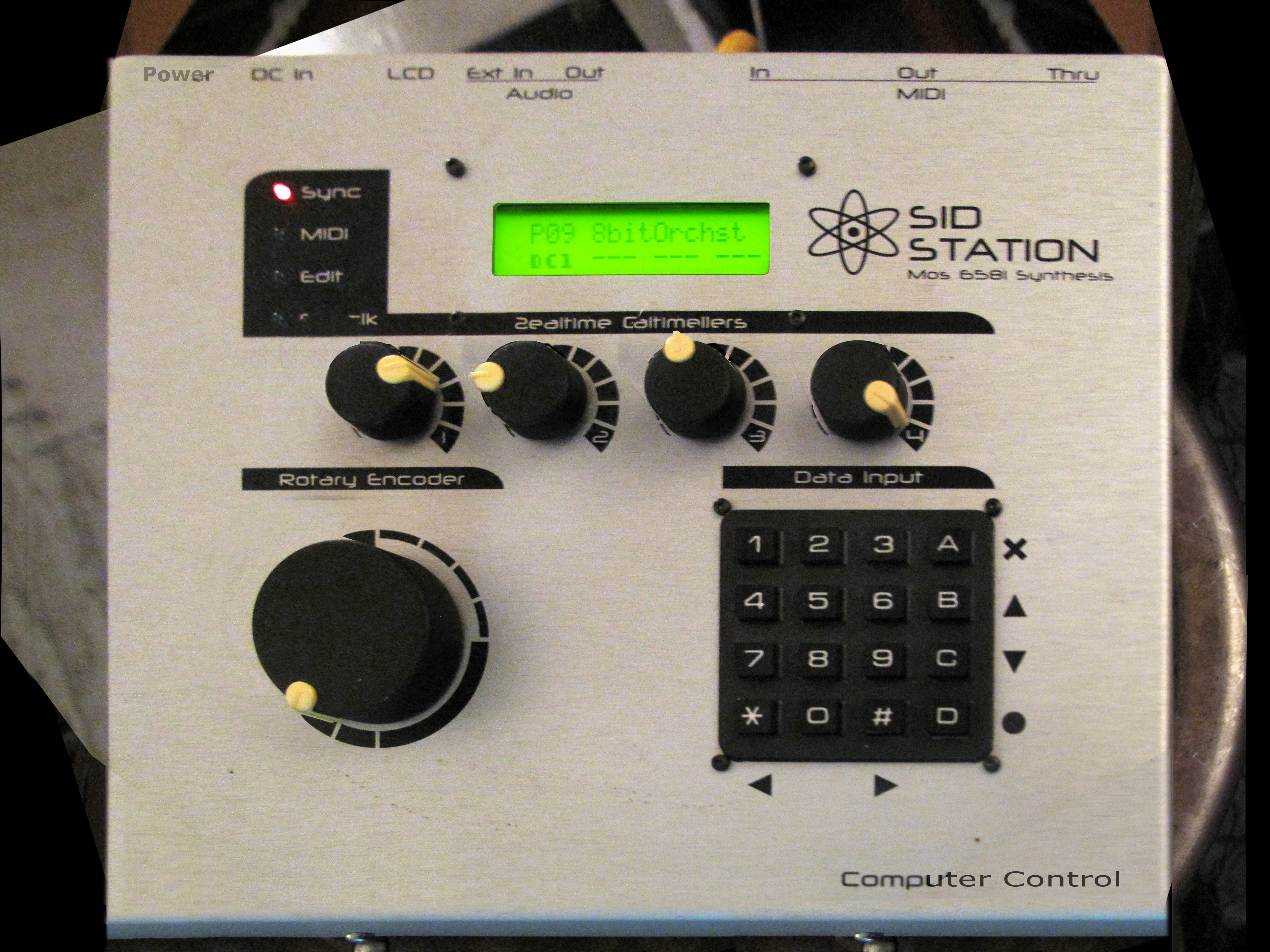 Elektron SidStation ITP Jam Session, October 2009